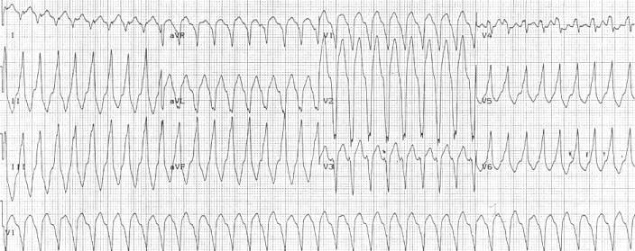 Monomorphic ventricular tachycardia originating from the right ventricular outflow tract. This particular patient had no response to adenosine 18mg fast IV push, and broke soon after an amiodarone IV push was given. The patient was eventually diagnosed with arrhythmogenic right ventricular dysplasia (ARVD). His baseline EKG had epsilon waves, which are characteristic of ARVD. The patient also had family history of sudden death of males in their early 20s (brother and an uncle) and echocardiographic findings consistent with ARVD.